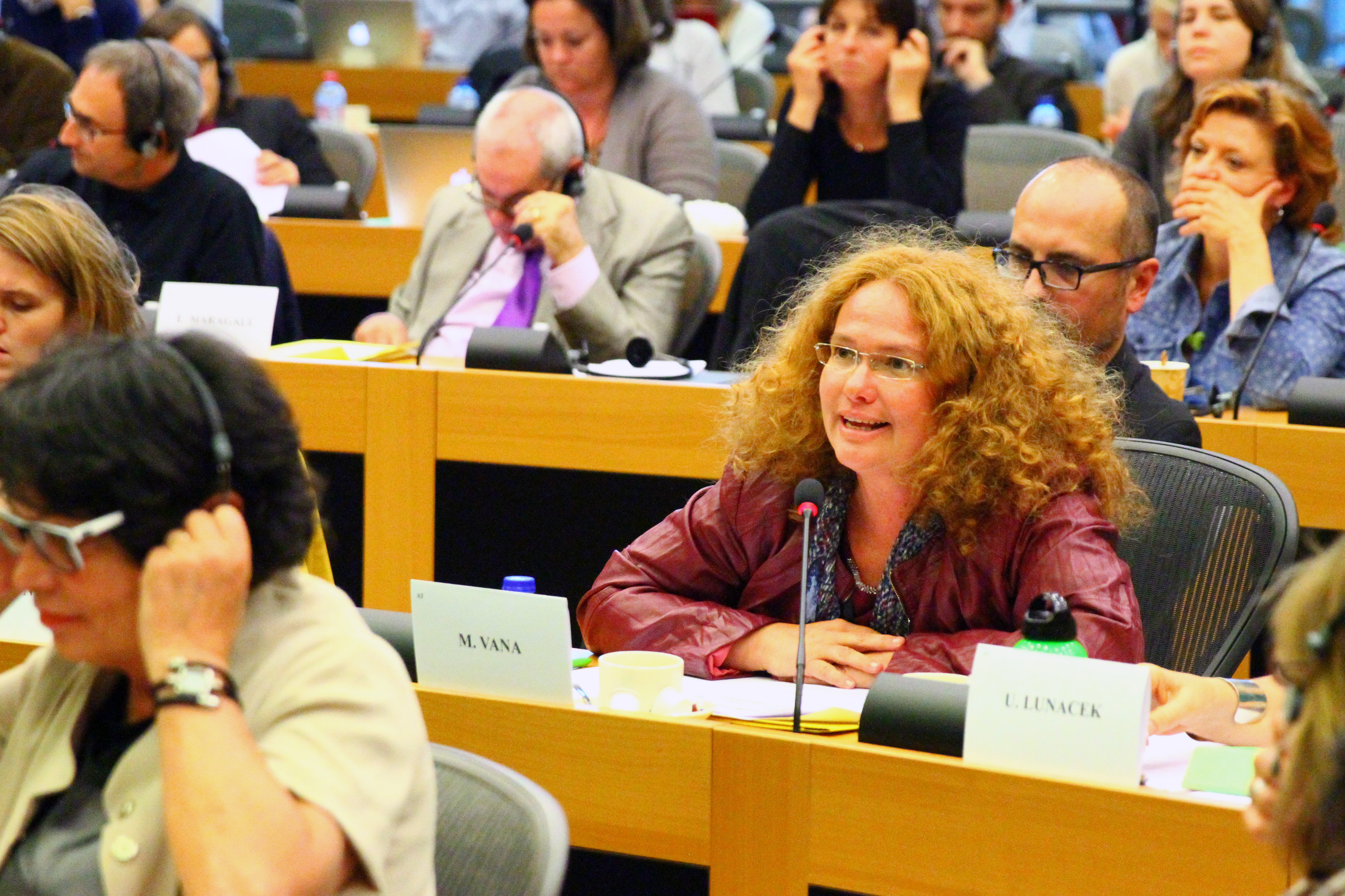 Monika Vana at a hearing with Jean-Claude Juncker of the Greens/EFA parliamentary group